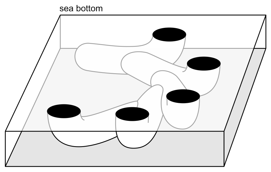 Treptichnus pedum trace. Original shape in 3-d view